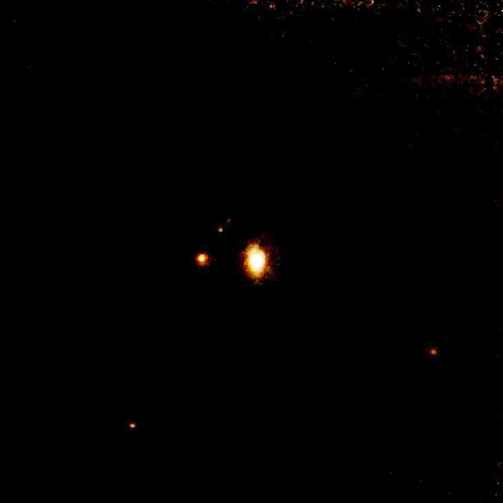 2XMM J153244.0+324248 (IRAS F15307+3252) - Hubble Space Telescope - Hubble Legacy Archive